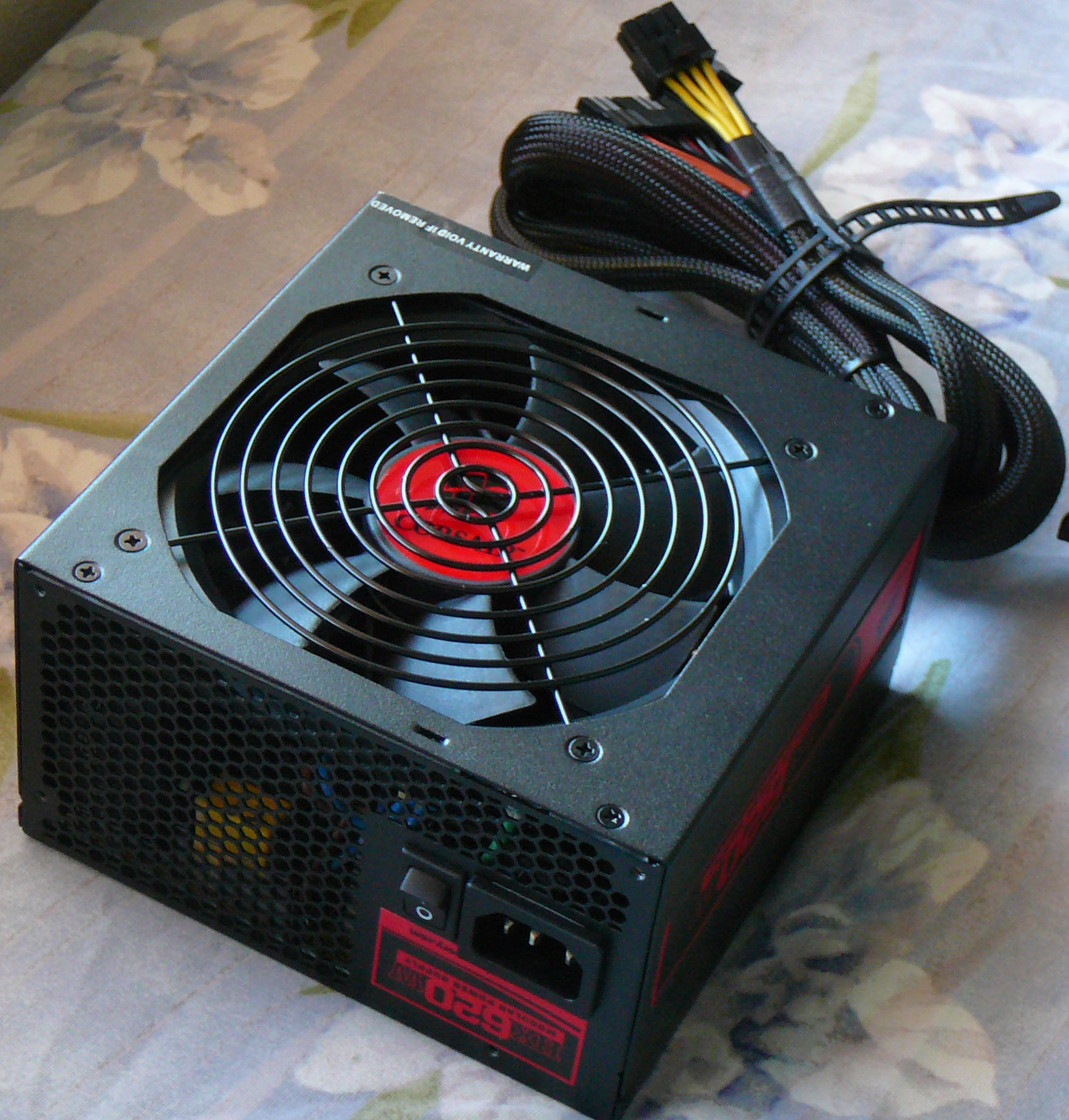 Corsair CMPSU-620Ĥ image. First embedded on